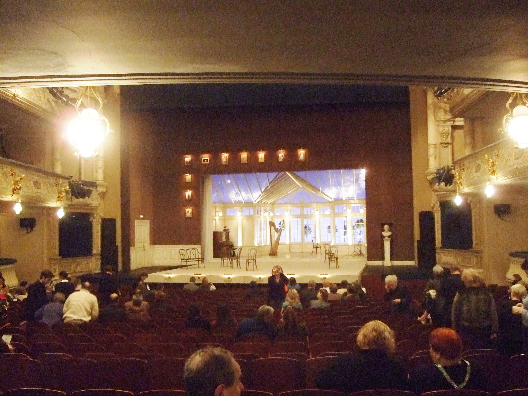 Tovstonogov Theater, setup for the Quartet play